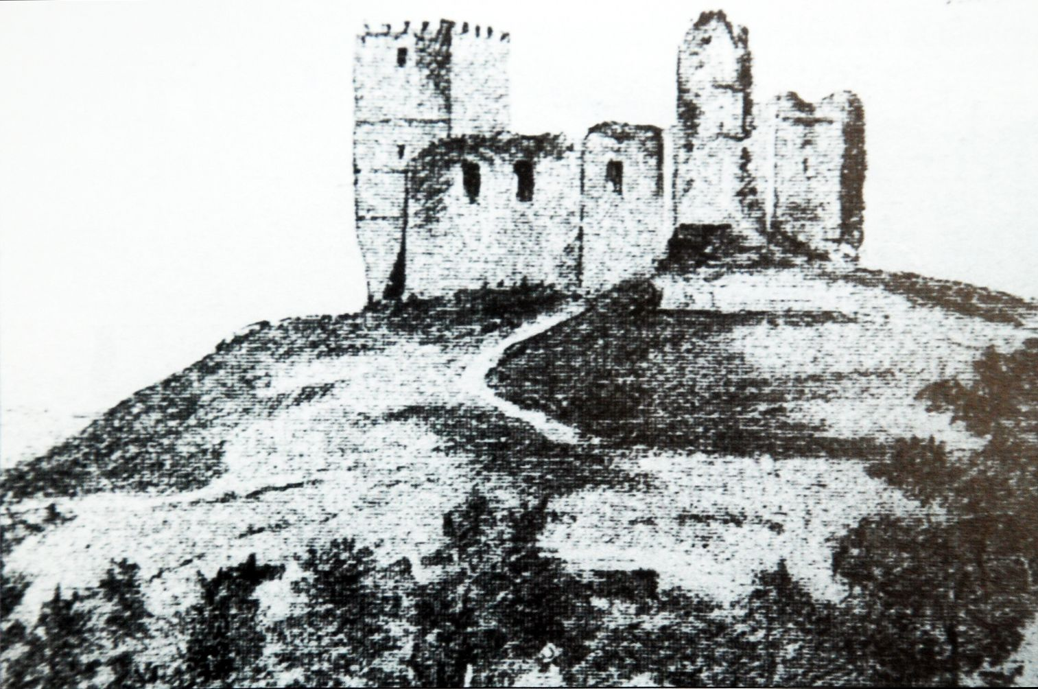 Castle of Saldaña’s 19th century picture (Palencia, Castile and León) from the South. There are two towers tribute carved with their vain and its four heights, a tall at the base, two intermediate and one tall on the fourth floor. Similarly shown including a construction that would correspond to the housing of the warden, according to a document of the 17TH century on the statements of the House of Infantado (file historic national (AHN).) Nobility Osuna, Frías, leg. 3.329-1): Fortress-hay in Saldaña a fortress with two large towers and in the midst of them a good building House fenced Barbican and strong wall although antiquity it already has uninhabitable. The ascent to the castle which cut the second enclosure at the point where previously could be located the gateway to the upper platform of the castle wall also appreciates the same way.